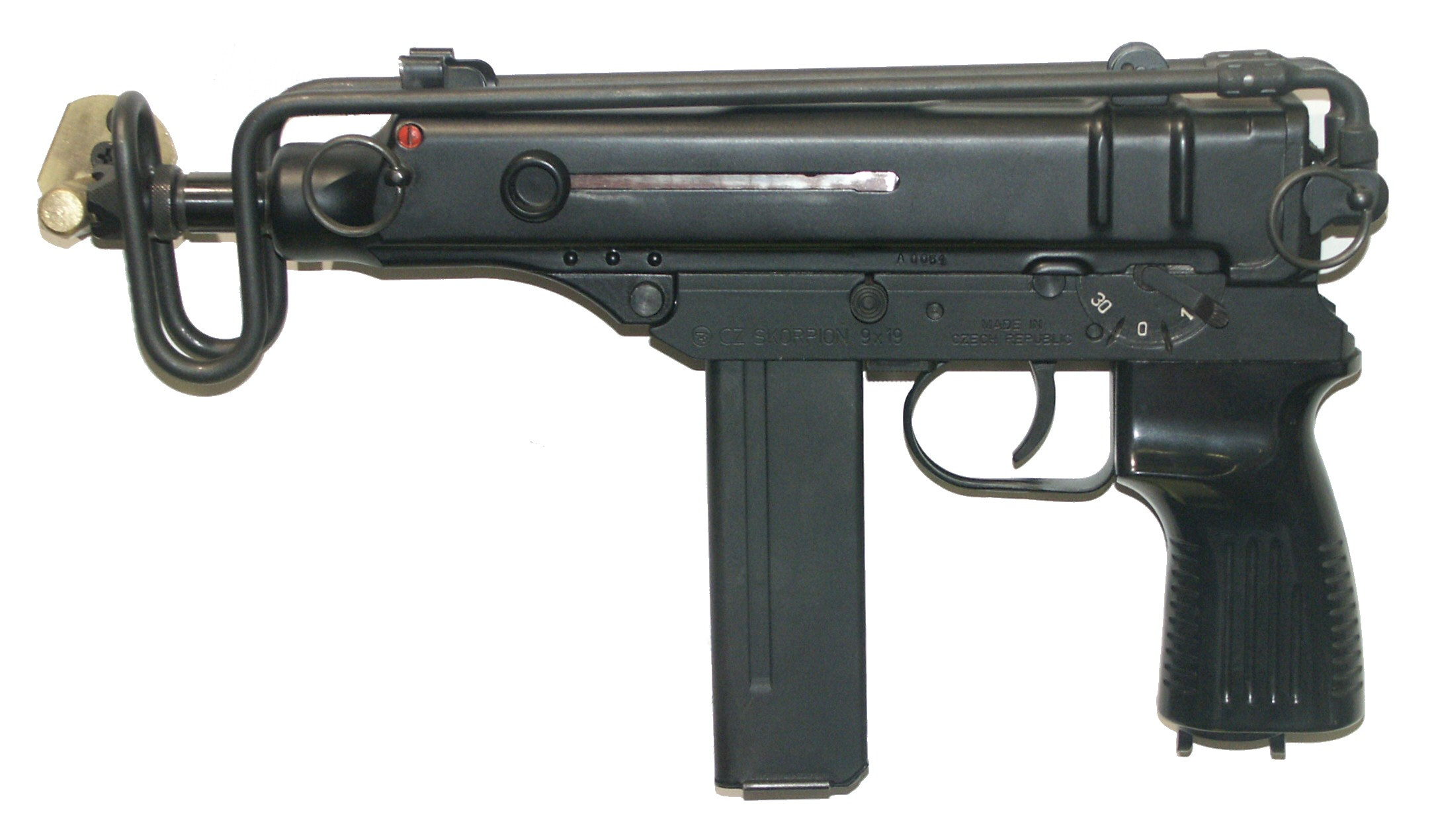 Czech Skorpion vz.61E SMG (9mm Parabellum).